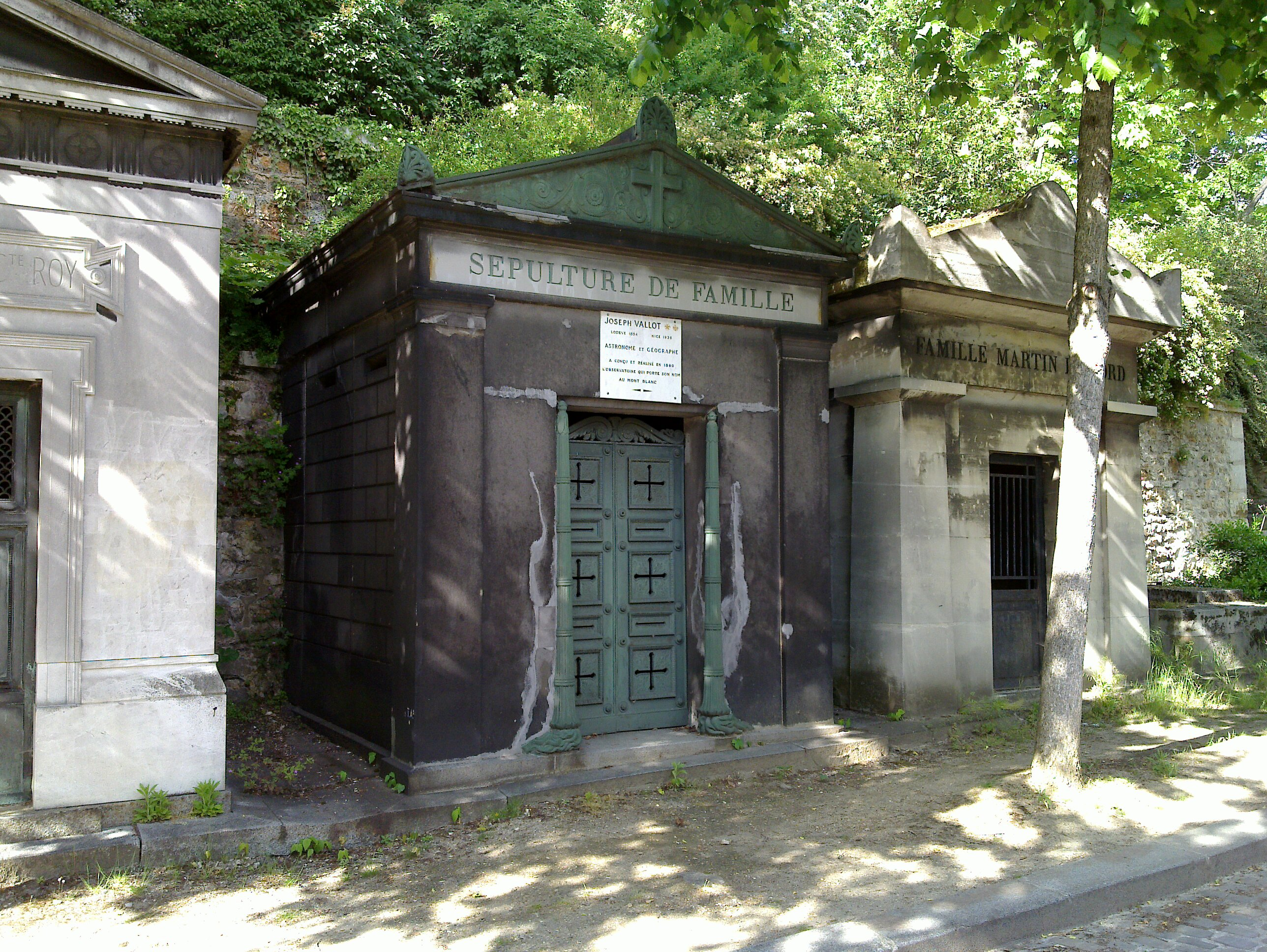 Joseph Vallot's grave, Père-Lachaise, Paris